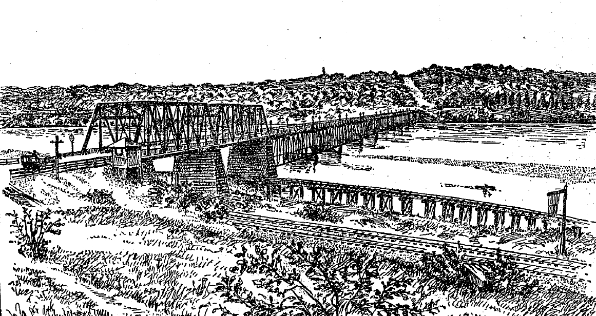 Drawing of the newly-erected Pennsylvania Avenue Bridge over the Anacostia River in Washington, D.C., in the United States. Completed in 1890, the bridge replaced a former structure that burned in 1846. The iron truss bridge featured an iron beam and wooden superstructure, and masonry piers. Two spans existed at the northwestern terminus of the bridge (left in this image) to allow passage of railroad trains beneath it.